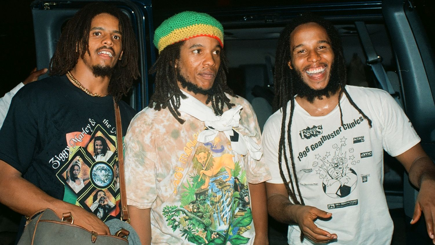 Baltimore M.D. 1997